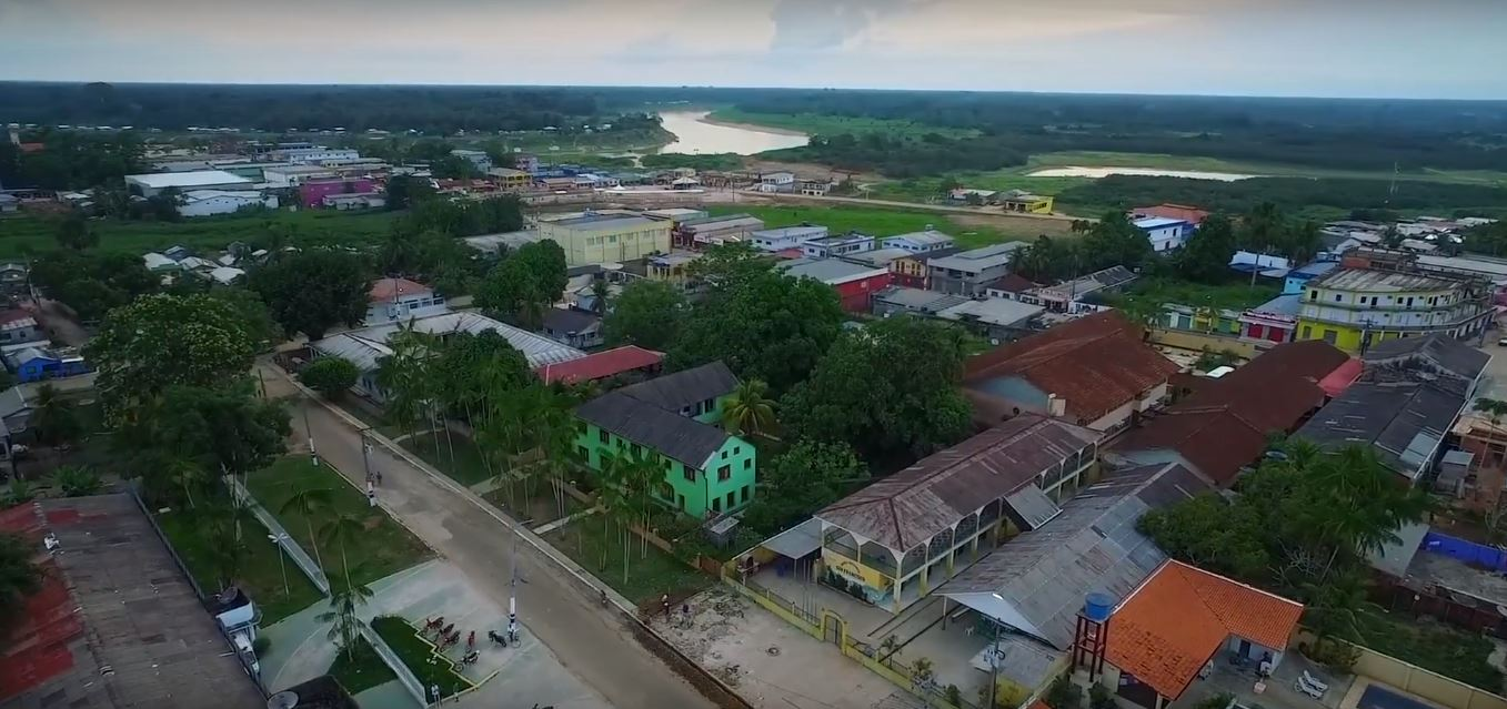 Vista de parte do Centro de Eirunepé (Amazonas), com os colégios e convento das irmãs franciscanas.